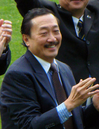 Vincent Tan, Cardiff City FC chairman.